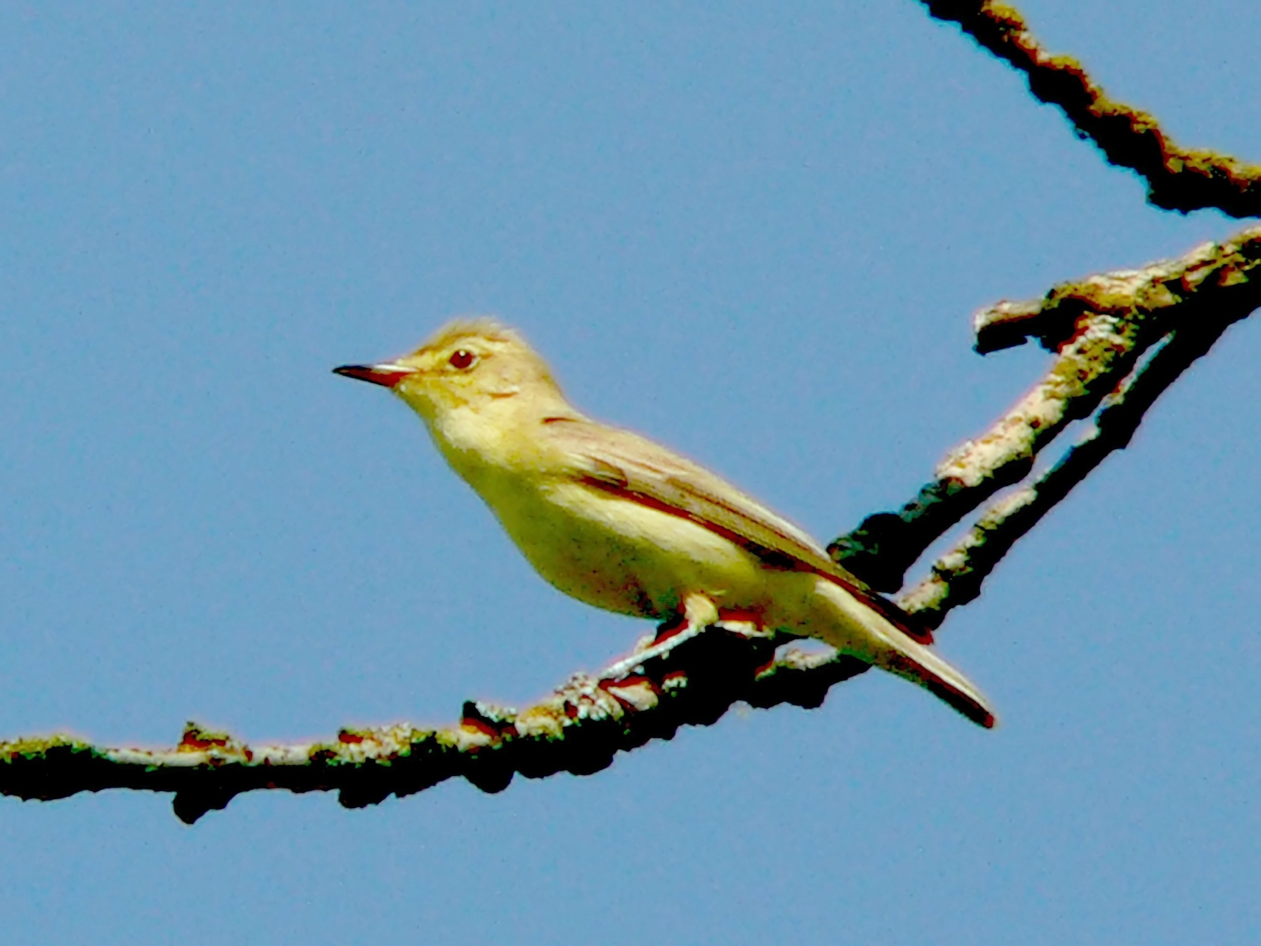 Icterine Warbler (Hippolais icterina}, Biebrza National Park, Poland